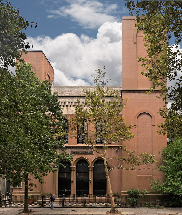 Exterior view of the synagogue building/sanctuary of Congregation Baith Israel Anshei Emes/The Kane Street synagogue